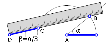 angle trisection due to archimedes